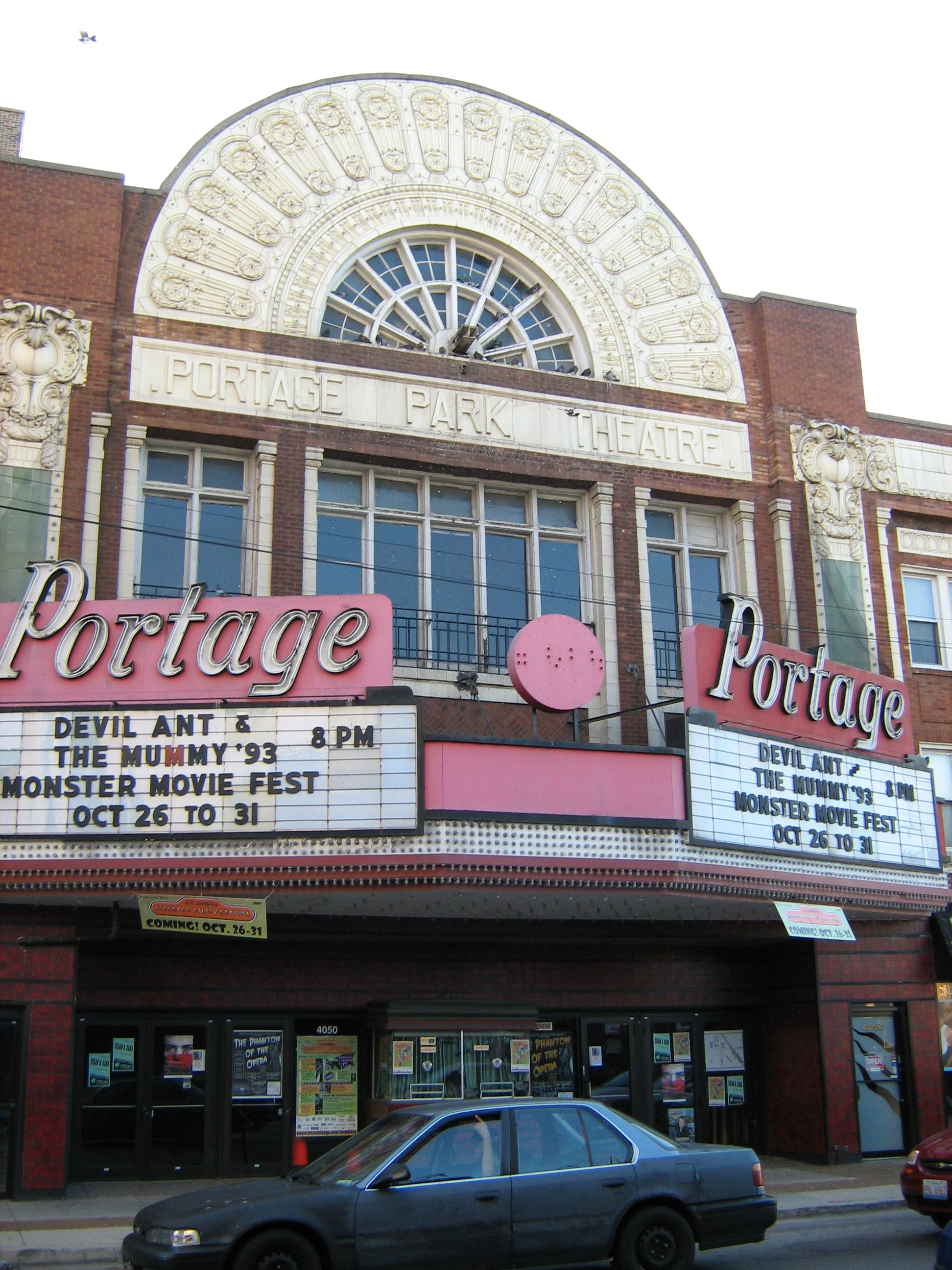 4050 N Milwaukee Ave., Chicago, IL 60641